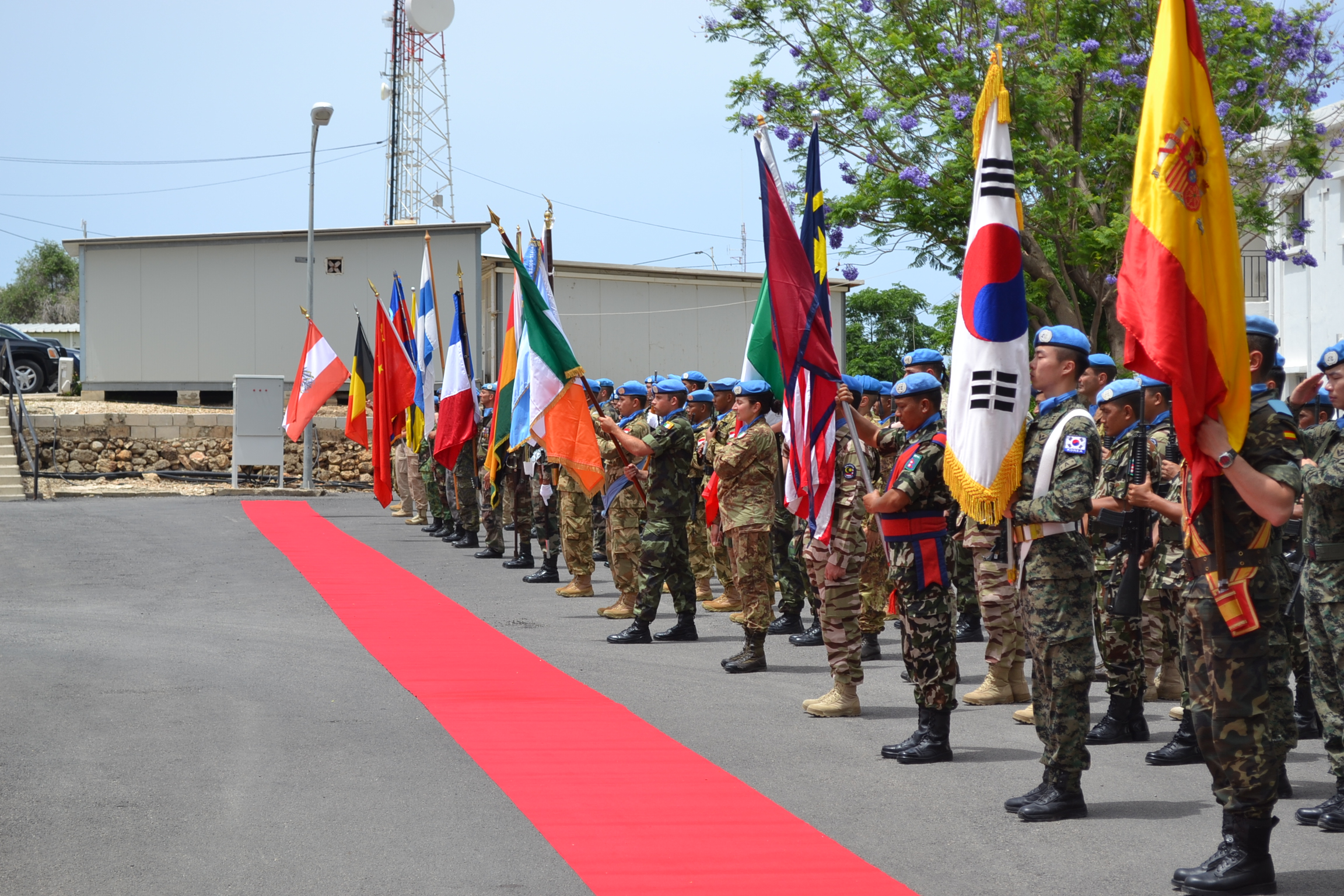 Celebrating International UN Peacekeepers Day